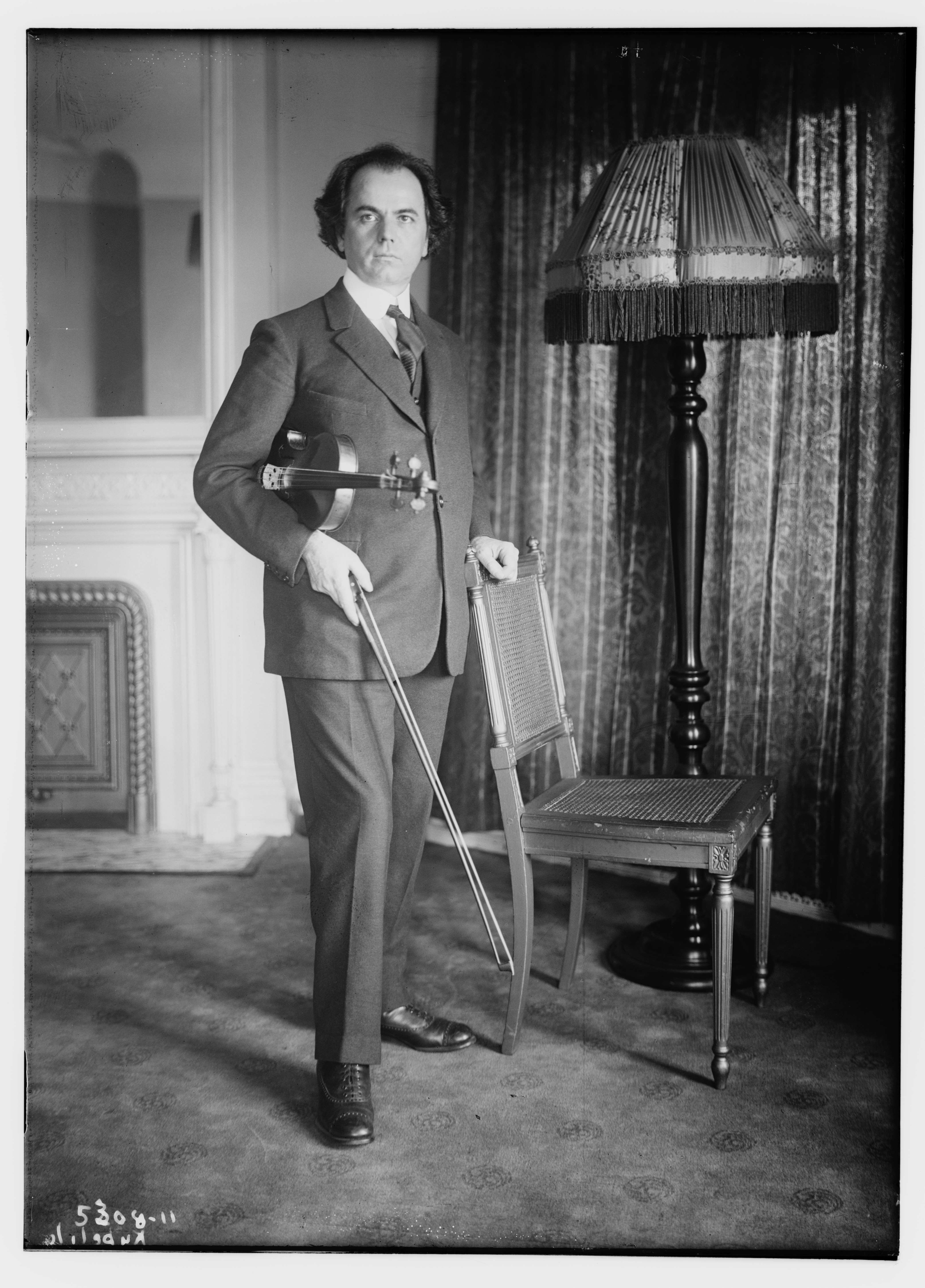 Jan Kubelik